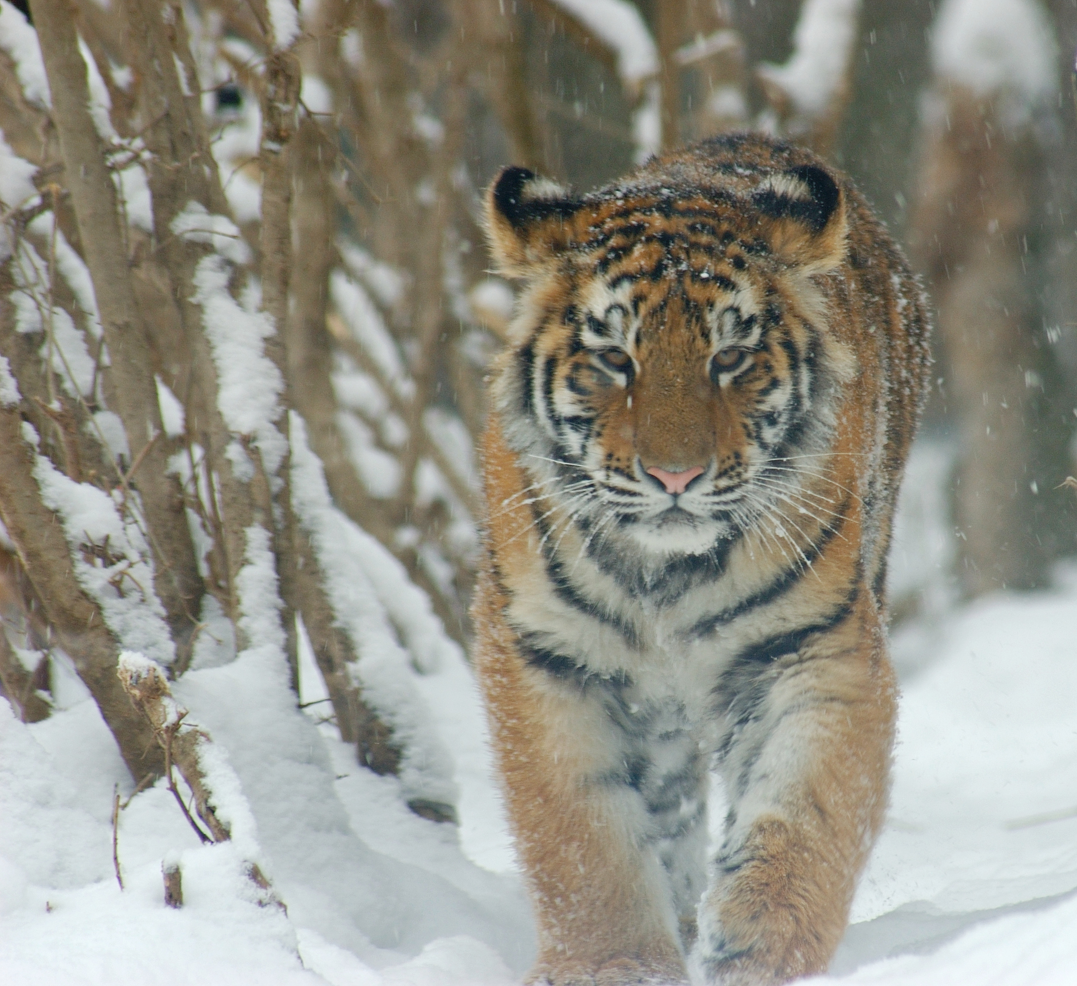 A photograph of a cub of an Amur Tigeren (Panthera tigris altaica en ). Photo taken at the Pittsburgh Zoo.